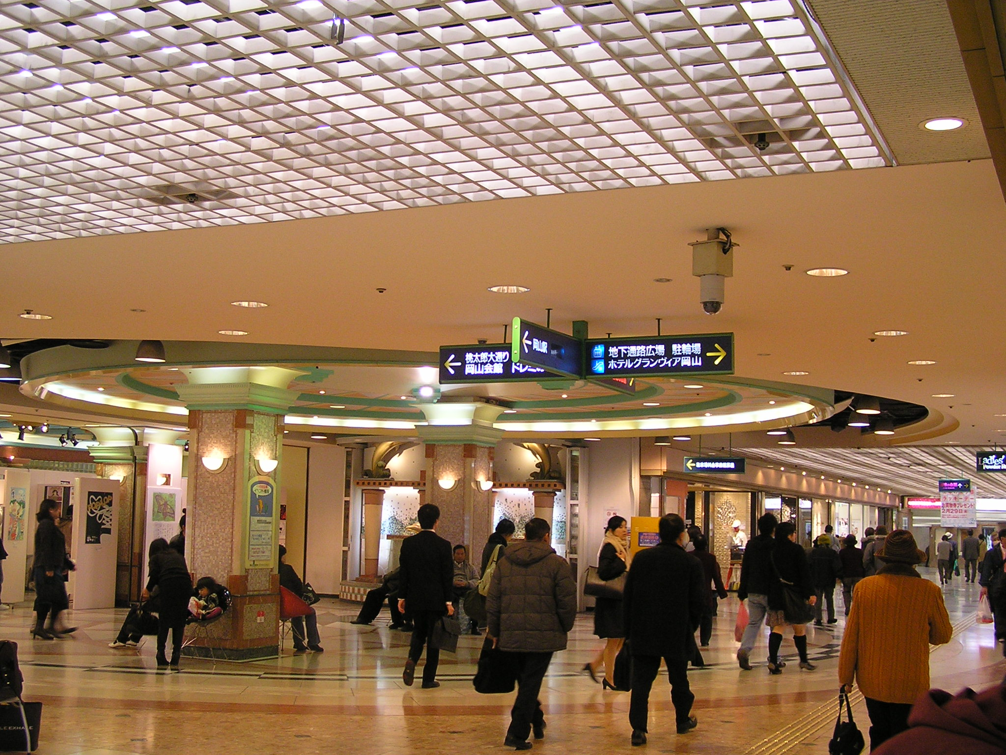 Dolphin plaza on Okayama Icibangai Underground shopping center